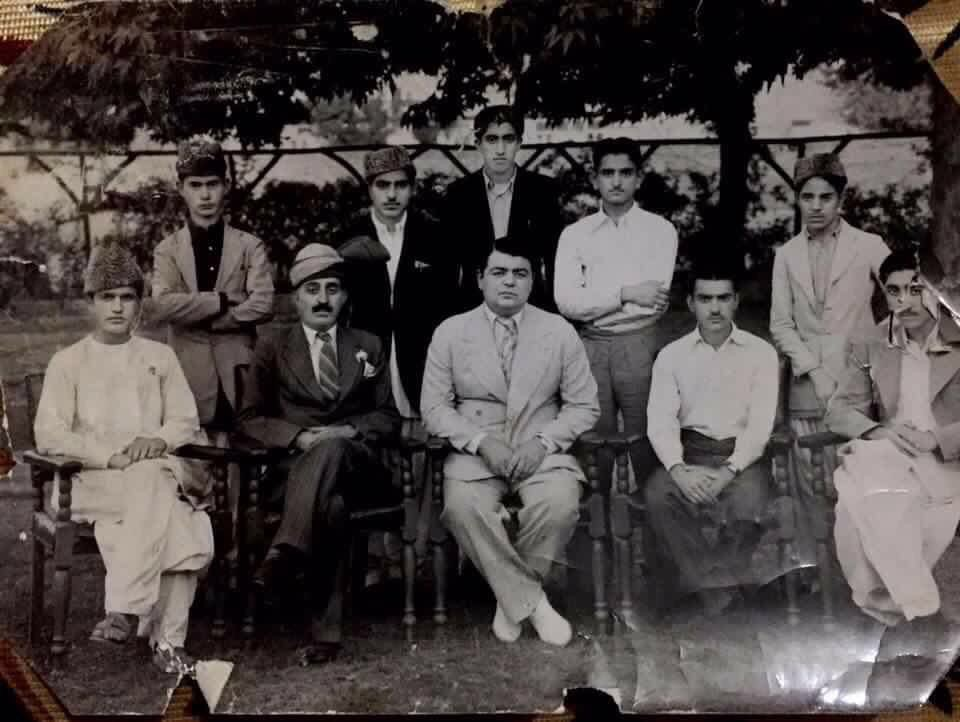 First from left is Mr. Fazal Ahmed Ghazi and Qazi Essa Mohammad is in the Center